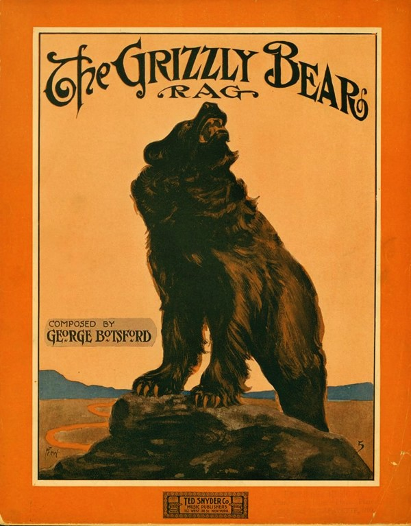 The Grizzly Bear, 1910